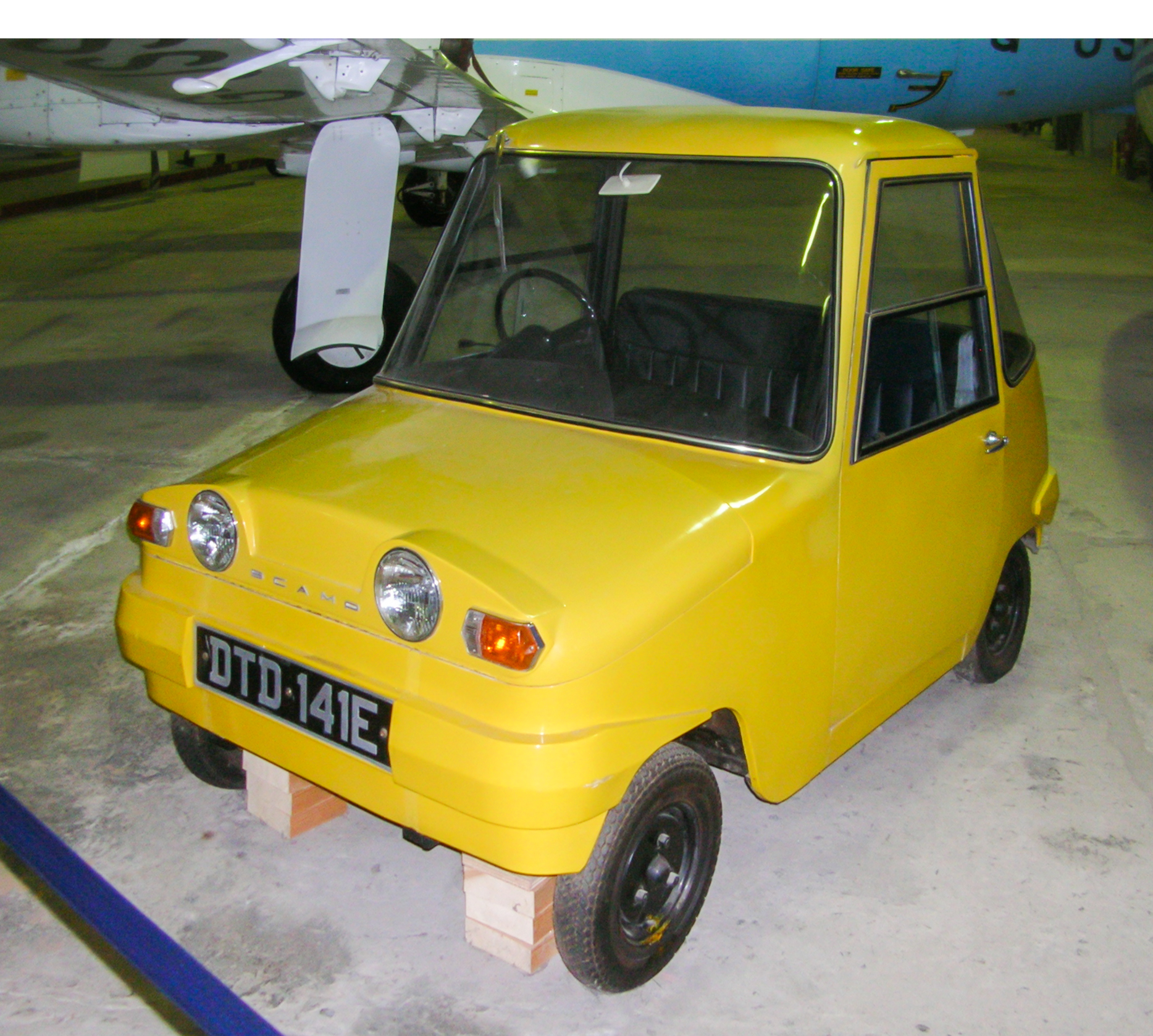 A 1966 Scottish Aviation Scamp. This example of this 1960s battery-electric microcar is kept at the National Museum of Flight, East Fortune, Scotland.